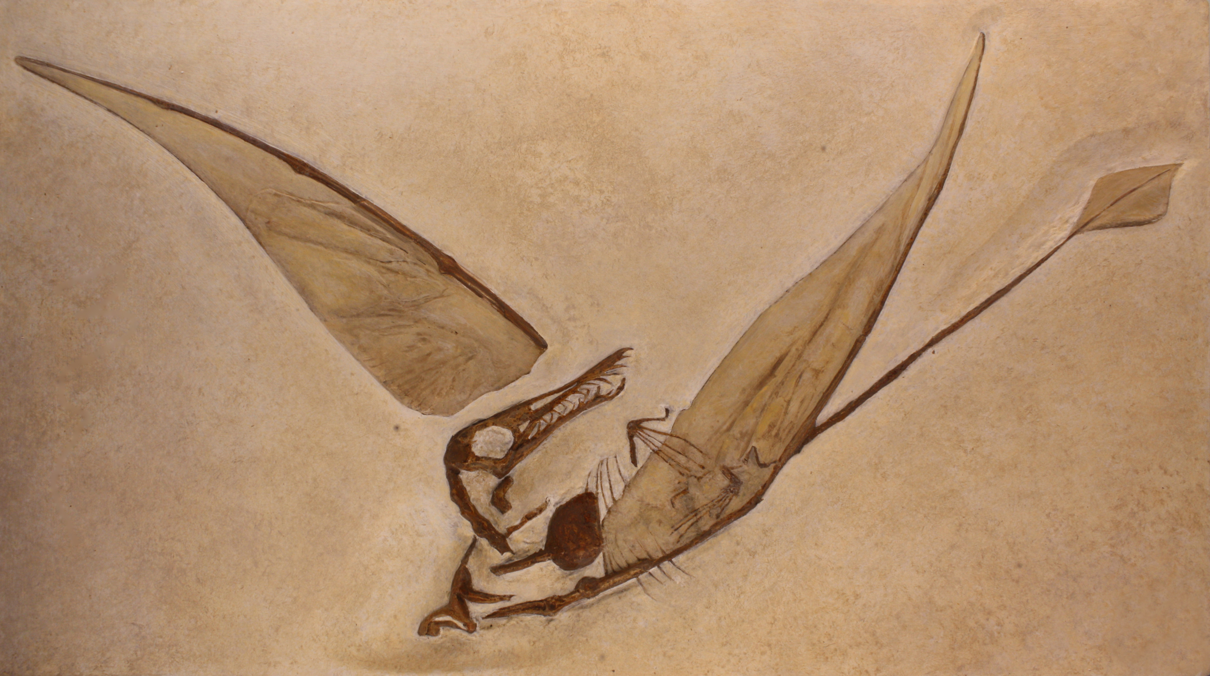 Fossil specimen of Rhamphorhynchus munsteri, YPM 1778 (example number 33 in Wellnhofer, 1975).